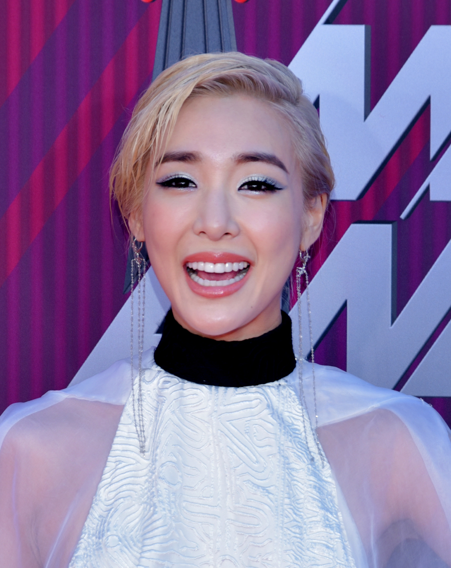 Tiffany Young attends the 2019 iHeartRadio Music Awards in Los Angeles, California - Photo by Glenn Francis of